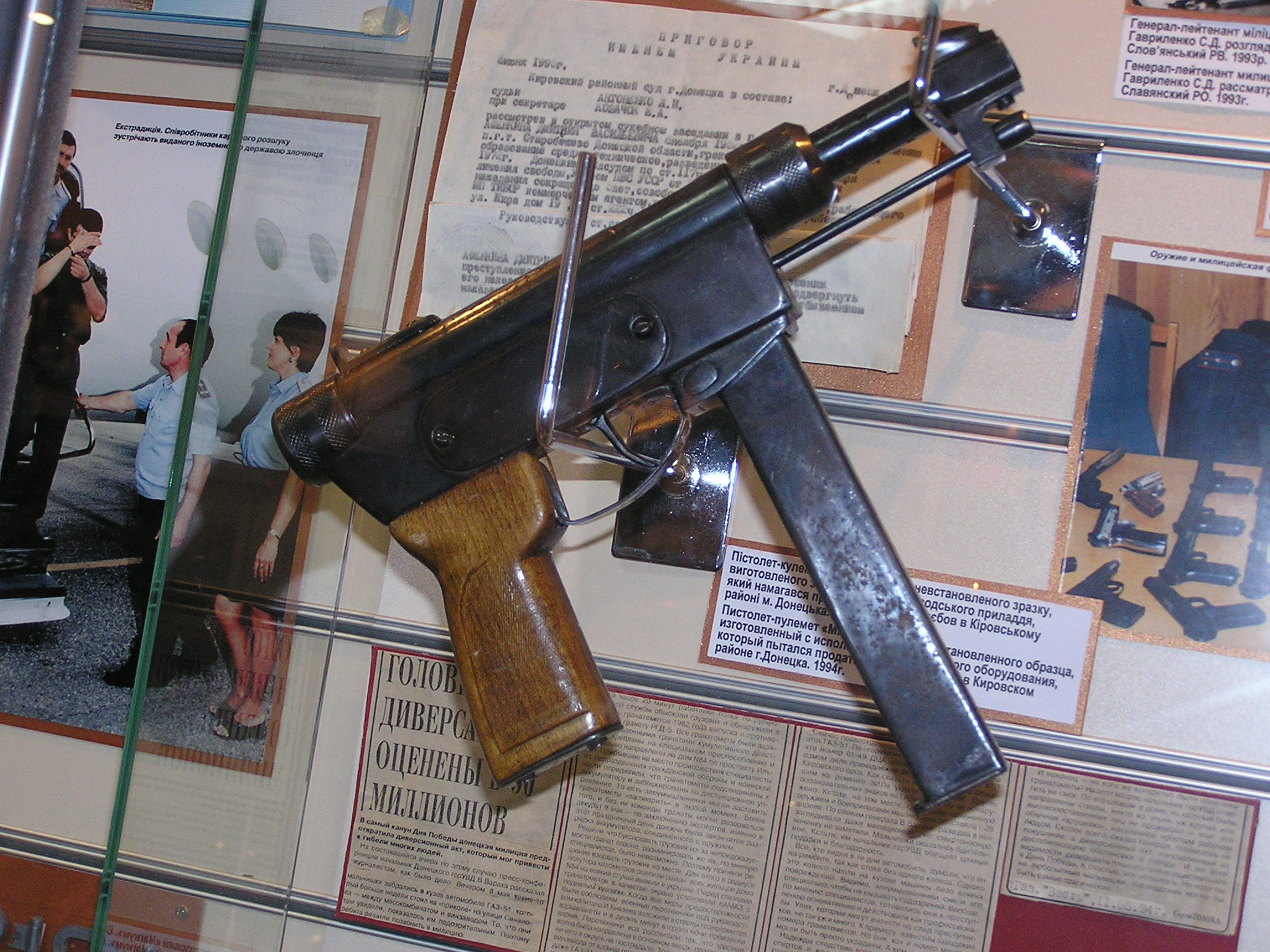 Museum of the History of Donetsk militsiya - criminal sub-machine gun